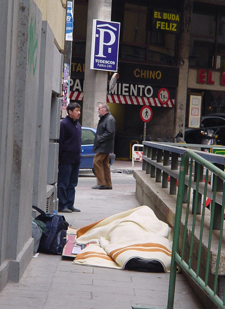 Homeless person sleeping in the open in Callao, Madrid in January 2006.